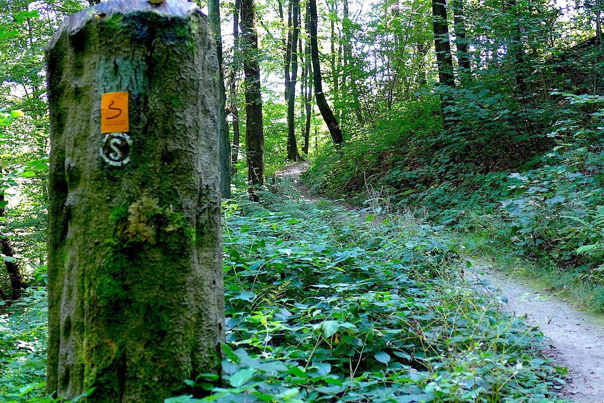 "Blade track" - the tourist marked route around the German city of Solingen (Northern Rhine-Westphalia). Second stage: Kohlfurth - Unterburg, 8,5 km.